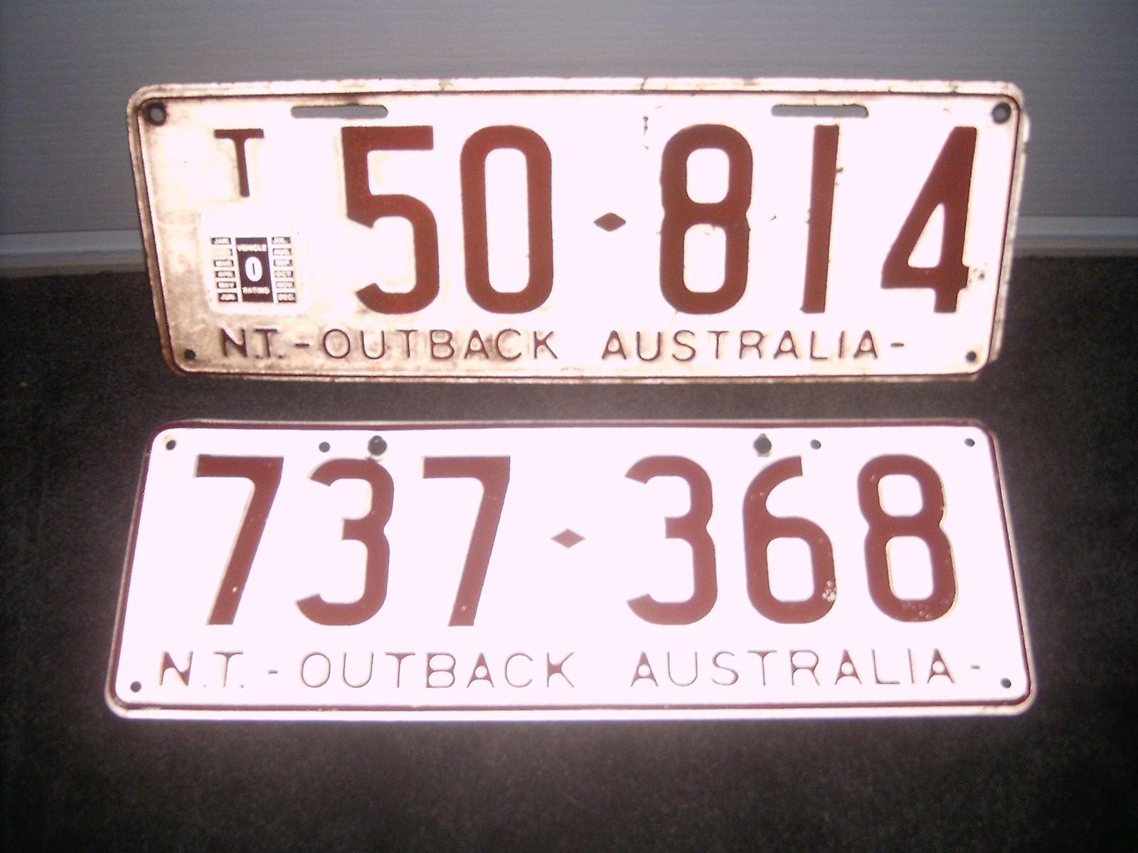 My NT plates.